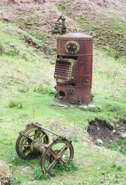 Renwick copper mine An old boiler and winch locate the site of an old trial for copper ore.